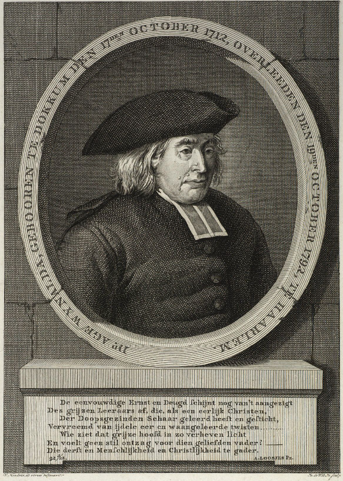 Age Wijnalda